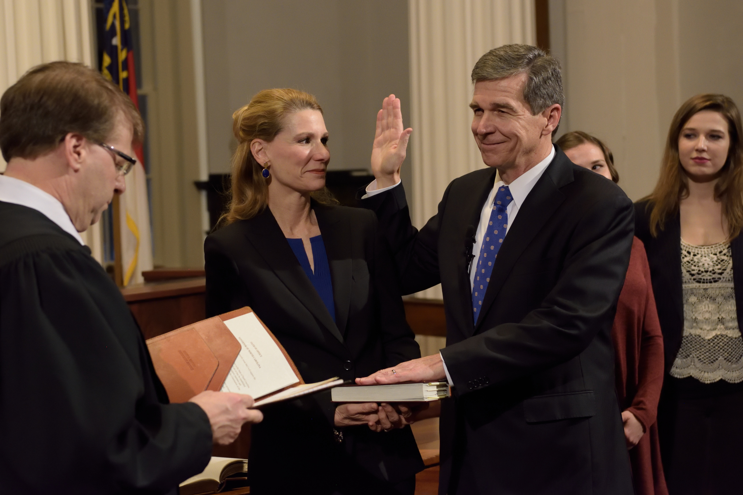 North Carolina Governor Roy Cooper swearing-in ceremony